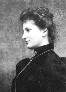 Alma Mahler-Werfel née Schindler (1899 or earlier)